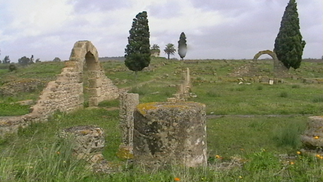 Roman ruins of Banasa (Morocco) Walon: Rwenes rominnes di Banasa : li forom, avou deus d' ses åtches d' intrêye